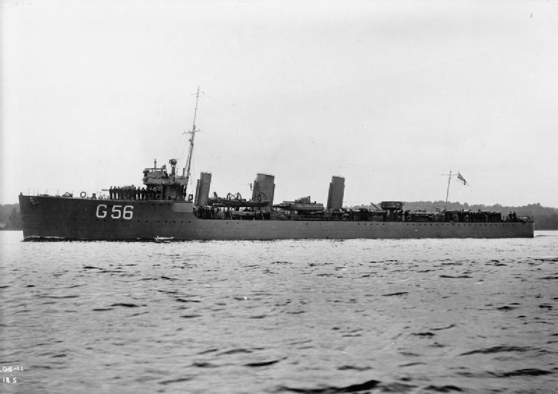 Photograph of British destroyer HMS Patrician, later became Canadian destroyer HMCS Patrician.